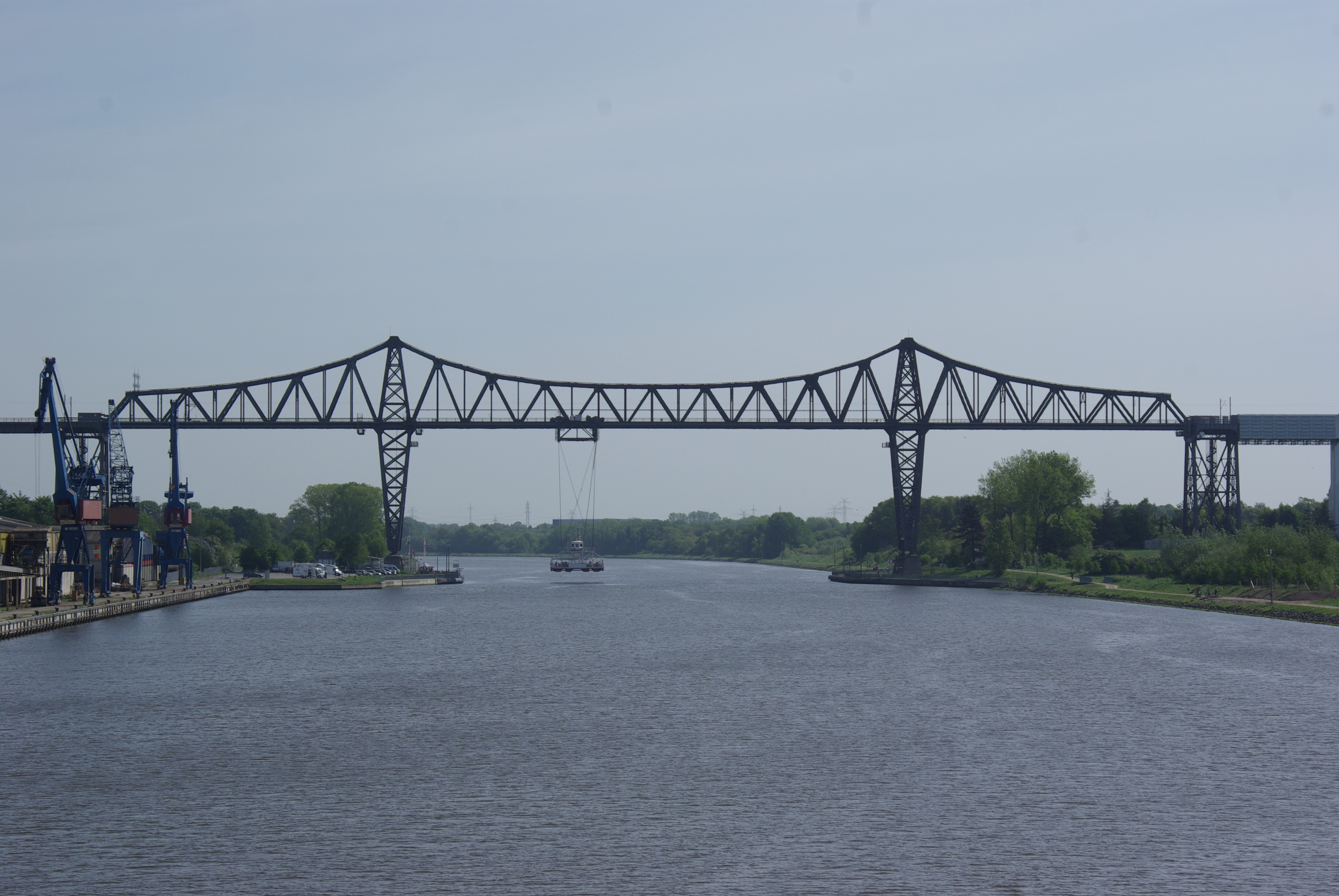 Rendsburg in Germany. The bridge over the Kiel Canal is a listed building.